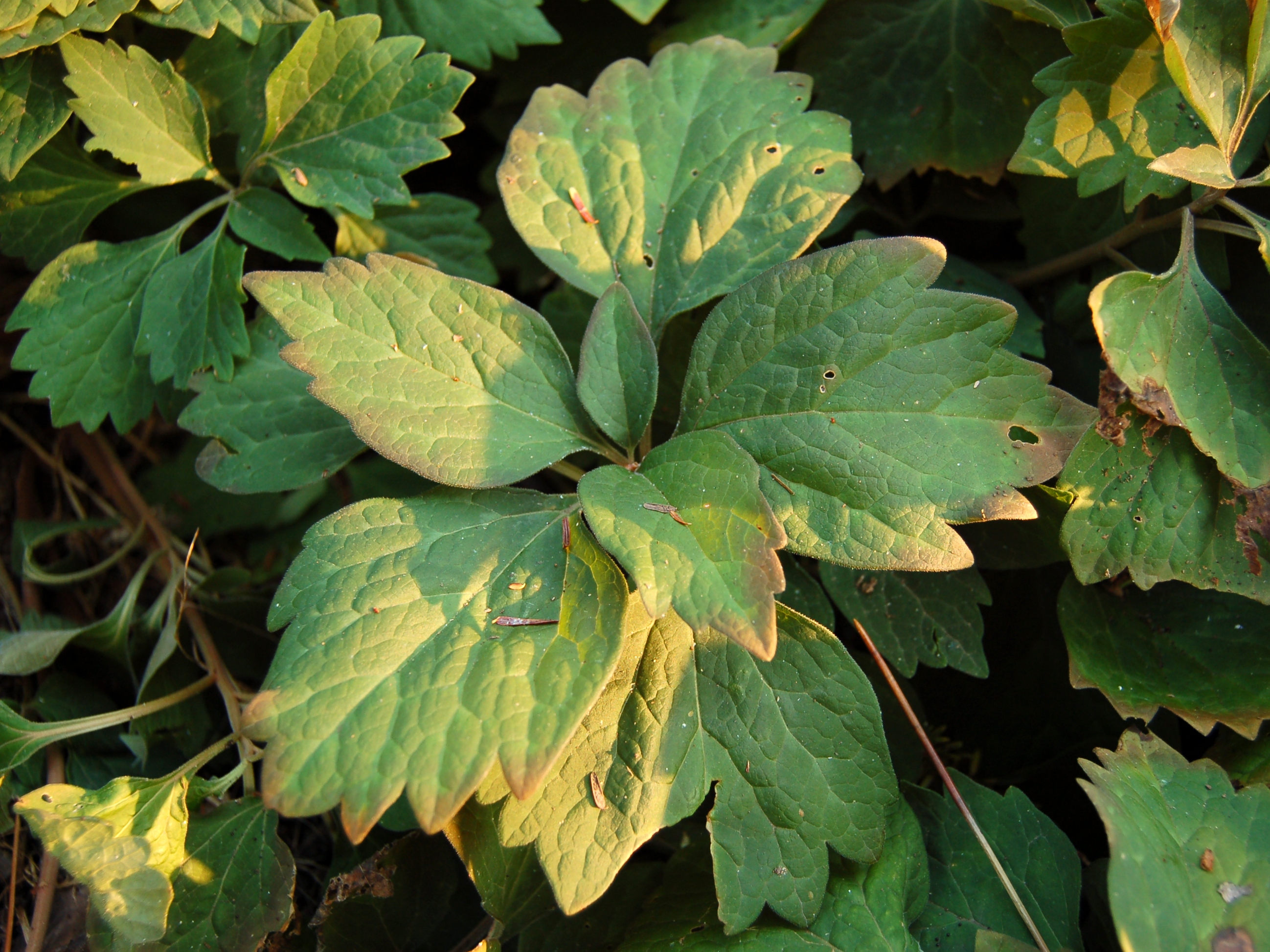 Photograph of a leaf cluster of the Alleghany Pachysandraen (Pachysandra procumbens en ). Photo taken at the Tyler Arboretum where it was identified.